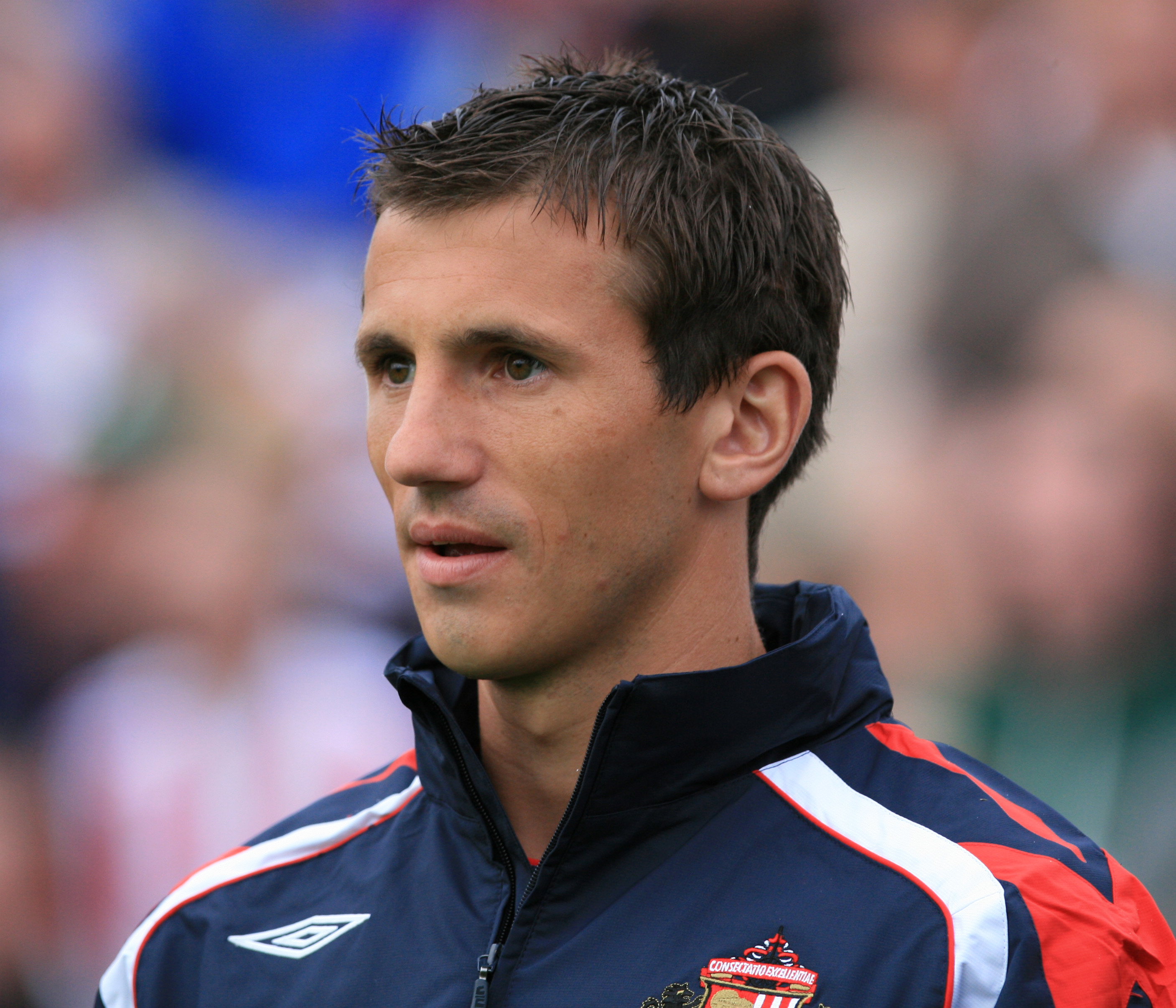 Bohemian FC 0-1 Sunderland AFC, Dalymount Park, Dublin 28/07/2007